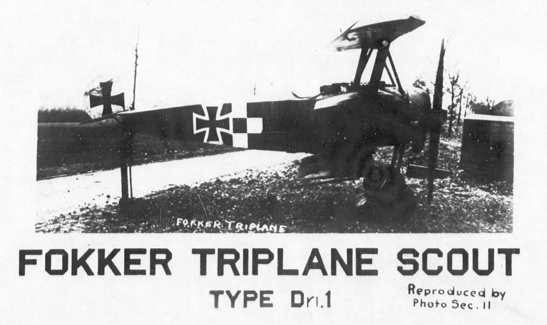 Captured Third Army German Fokker Dr.I, taken at Coblenz Aerodrome, Germany